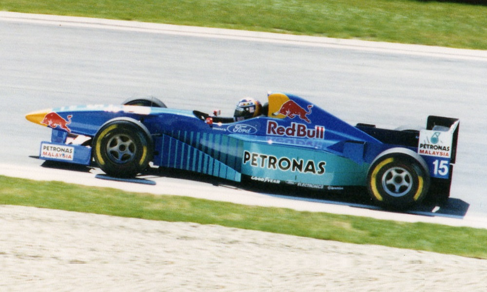 Heinz-Harald Frentzen's Sauber C15 during free practice of 1996 San Marino Grand Prix.